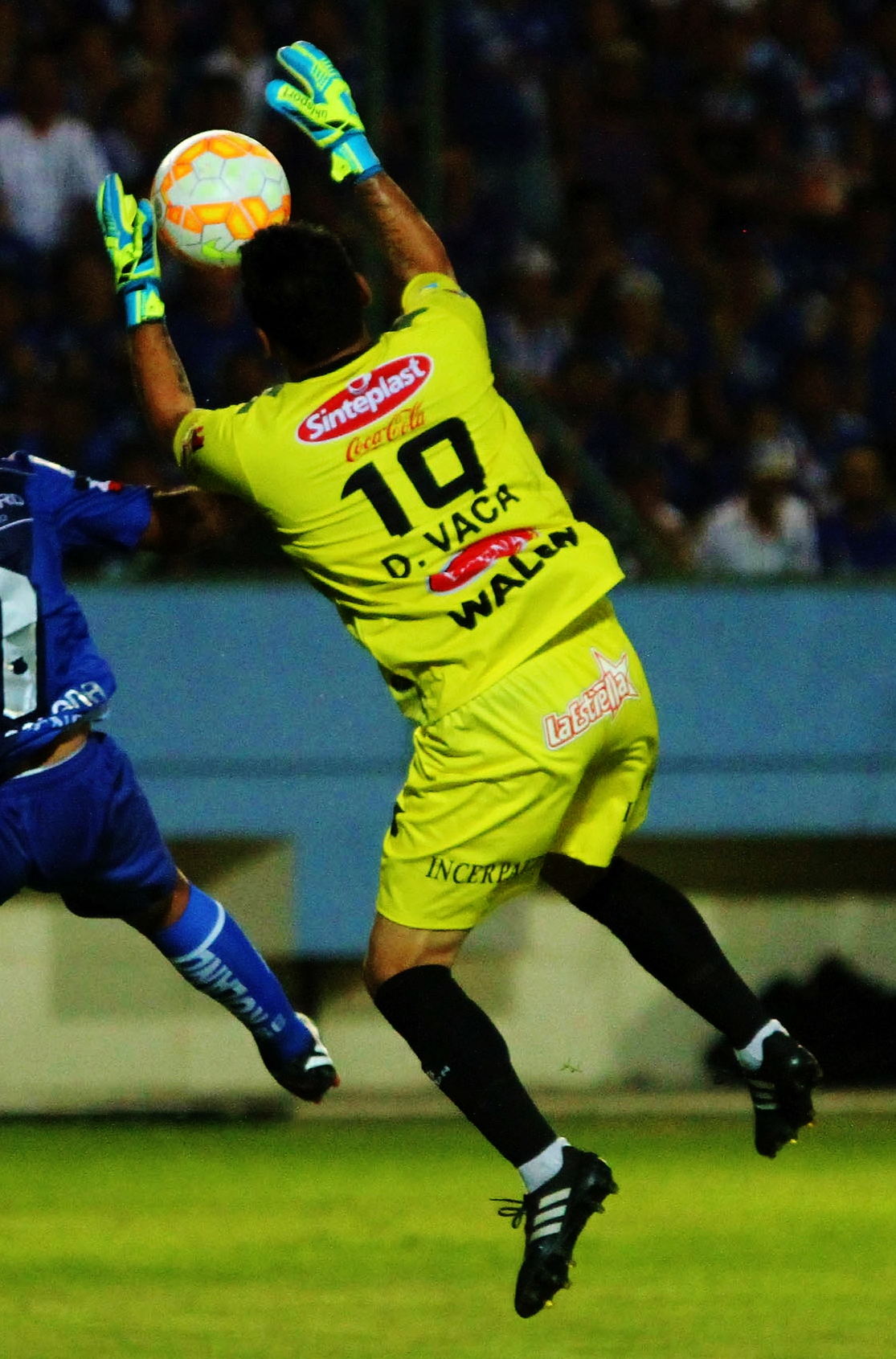 Manta, martes 24 de febraro del 2015 (ANDES).-Emelec golea 3x0 all The Strongest de Bolívia en el estadio Jocay de la ciudad de Manta, Manabí, partido jugado por Copa Libertadores.Foto:César Muñoz/ANDES